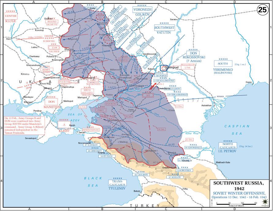 Soviet offensive following the German failure to retake Stalingrad